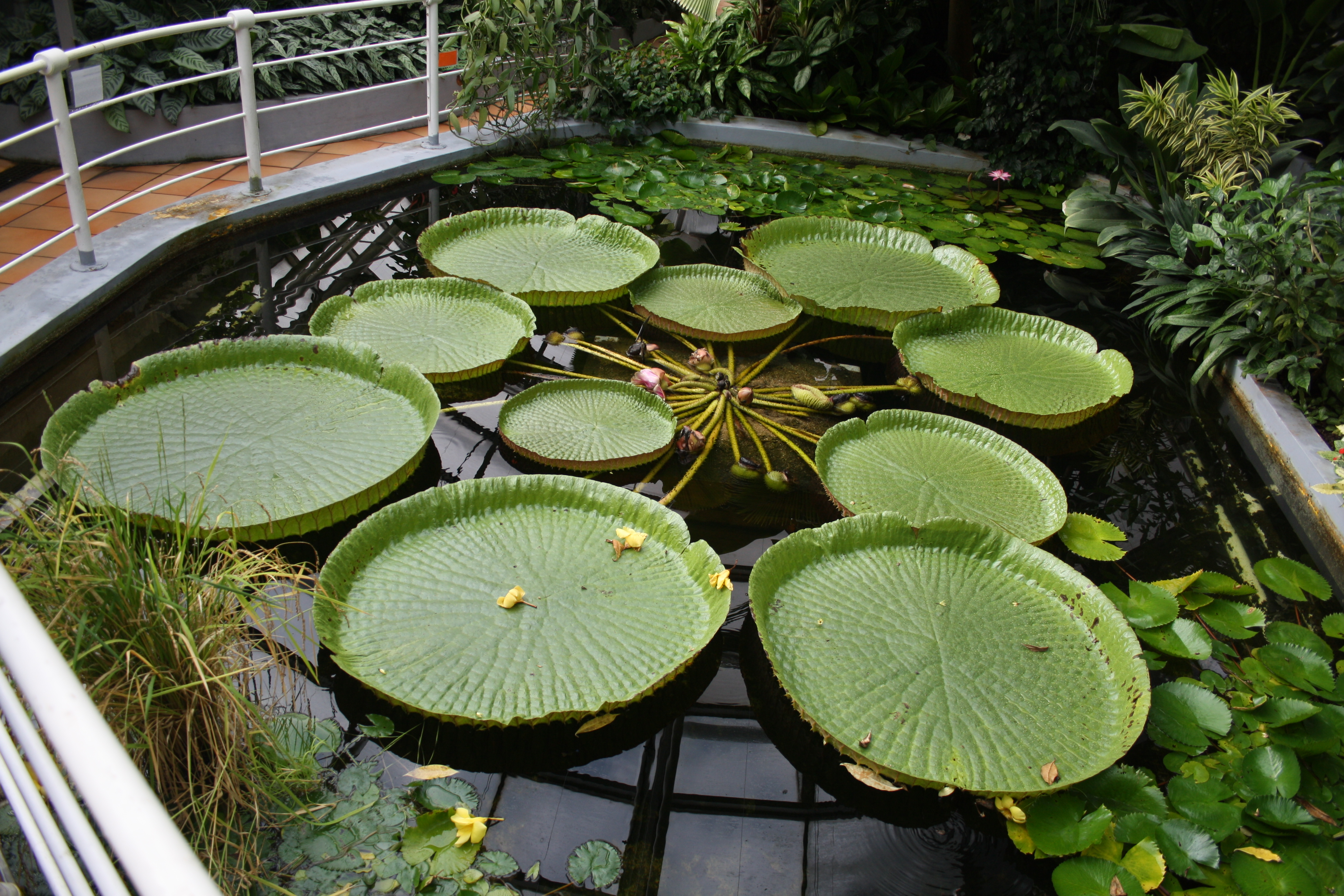 Victoria amazonica in Botanical garden Brno glasshouse.